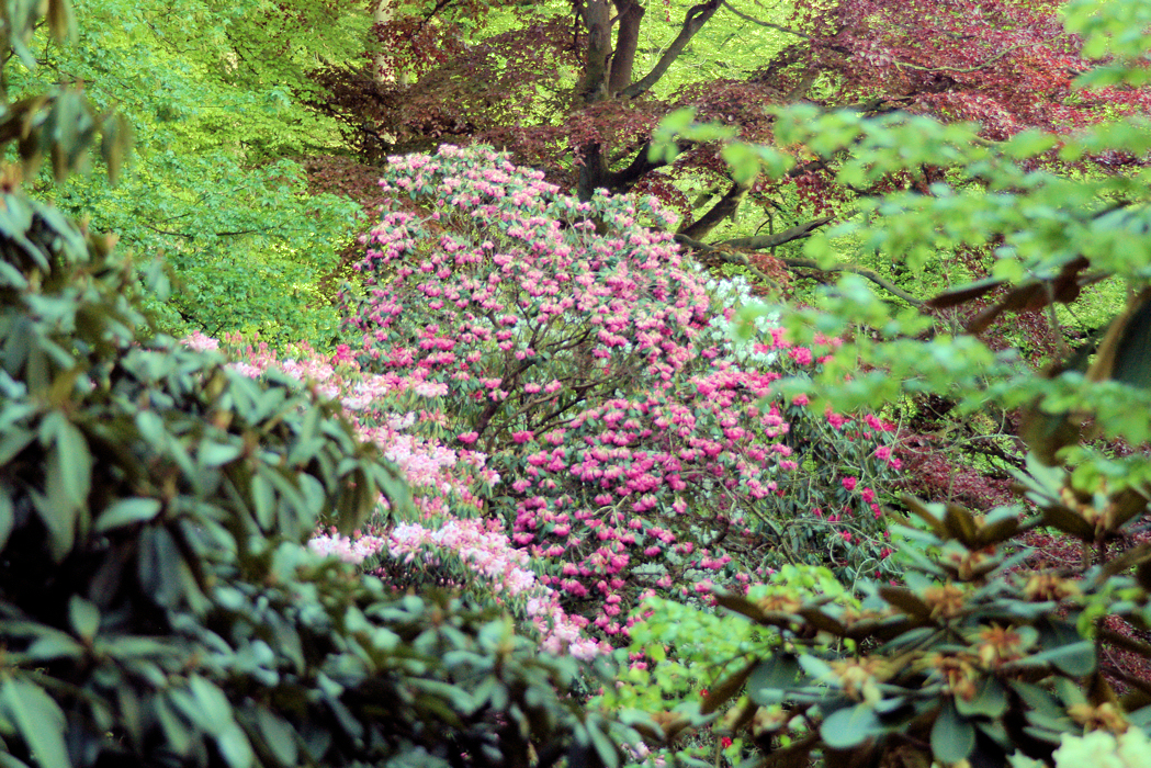 Rhododendrons planted by Reginald Farrer are still growing in Clapham, North Yorkshire.